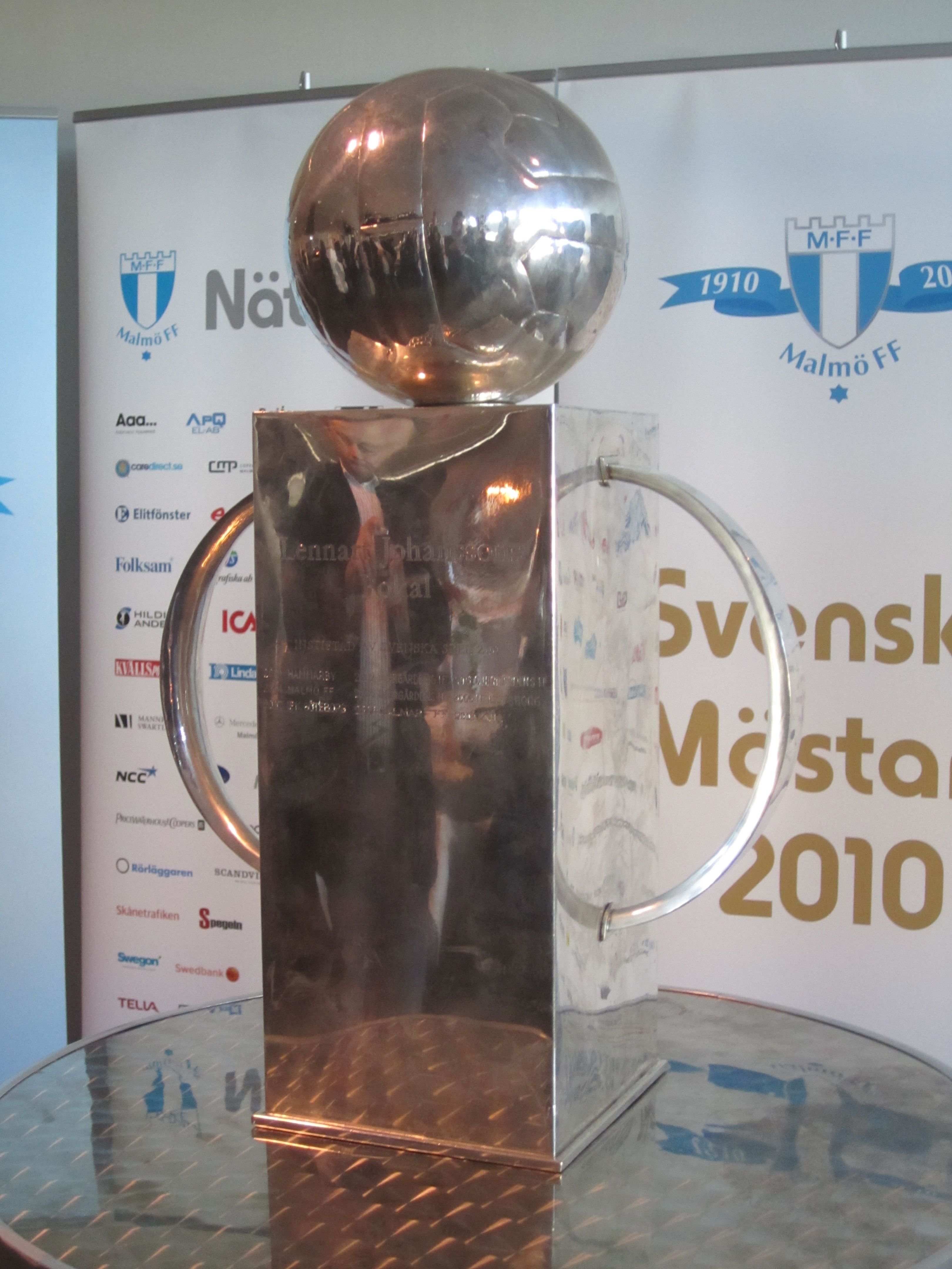 Lennart Johanssons pokal - Trophy for the winner of the Swedish football championship- Allsvenskan